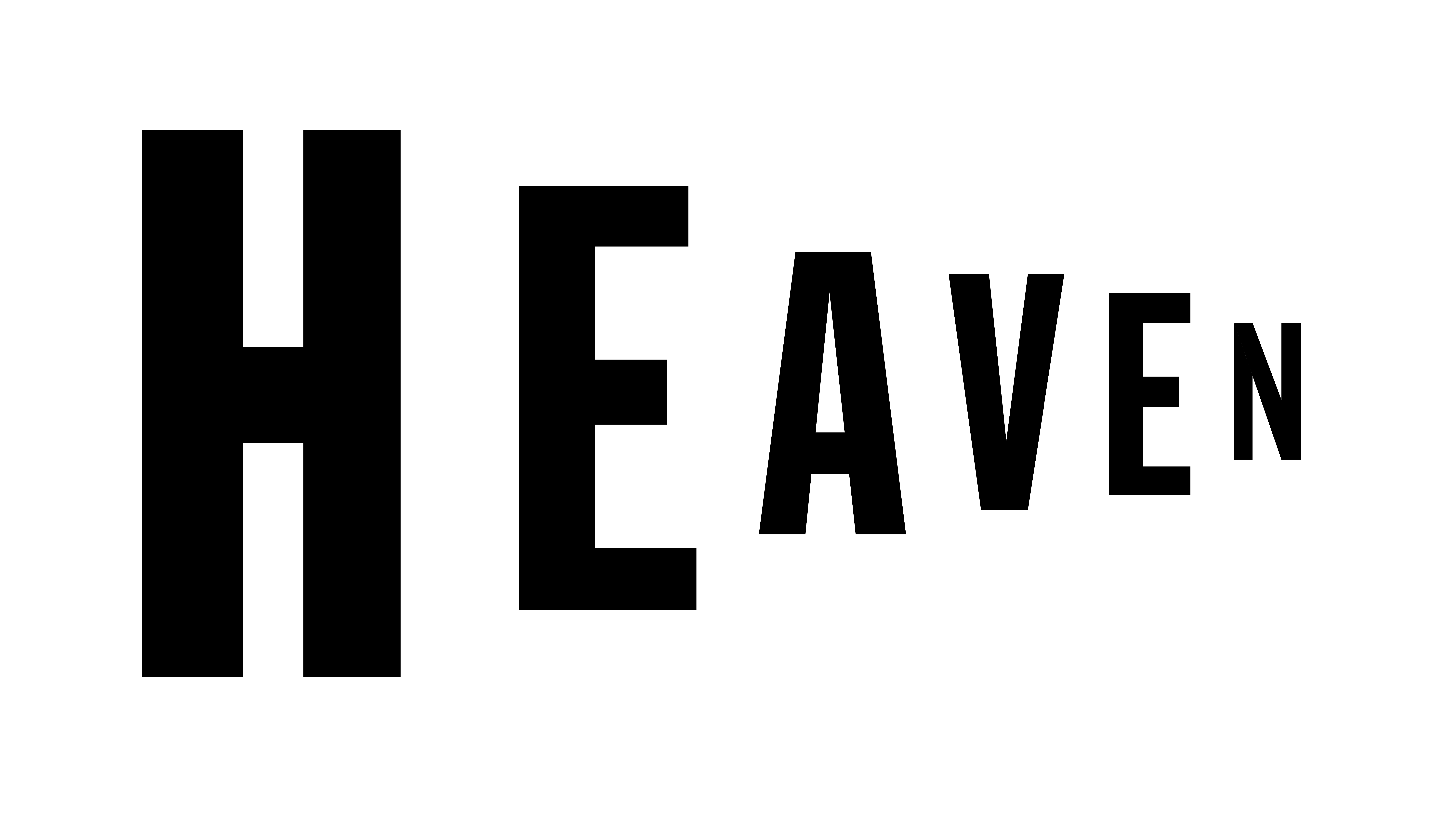 logo, created in Adobe Illustrator.